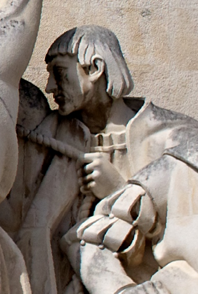 Effigy of António de Abreu (c. 1480 – c. 1514), Portuguese navigator and naval officer, in the Padrão dos Descobrimentos (Monument to the Discoveries), in Lisbon, Portugal.